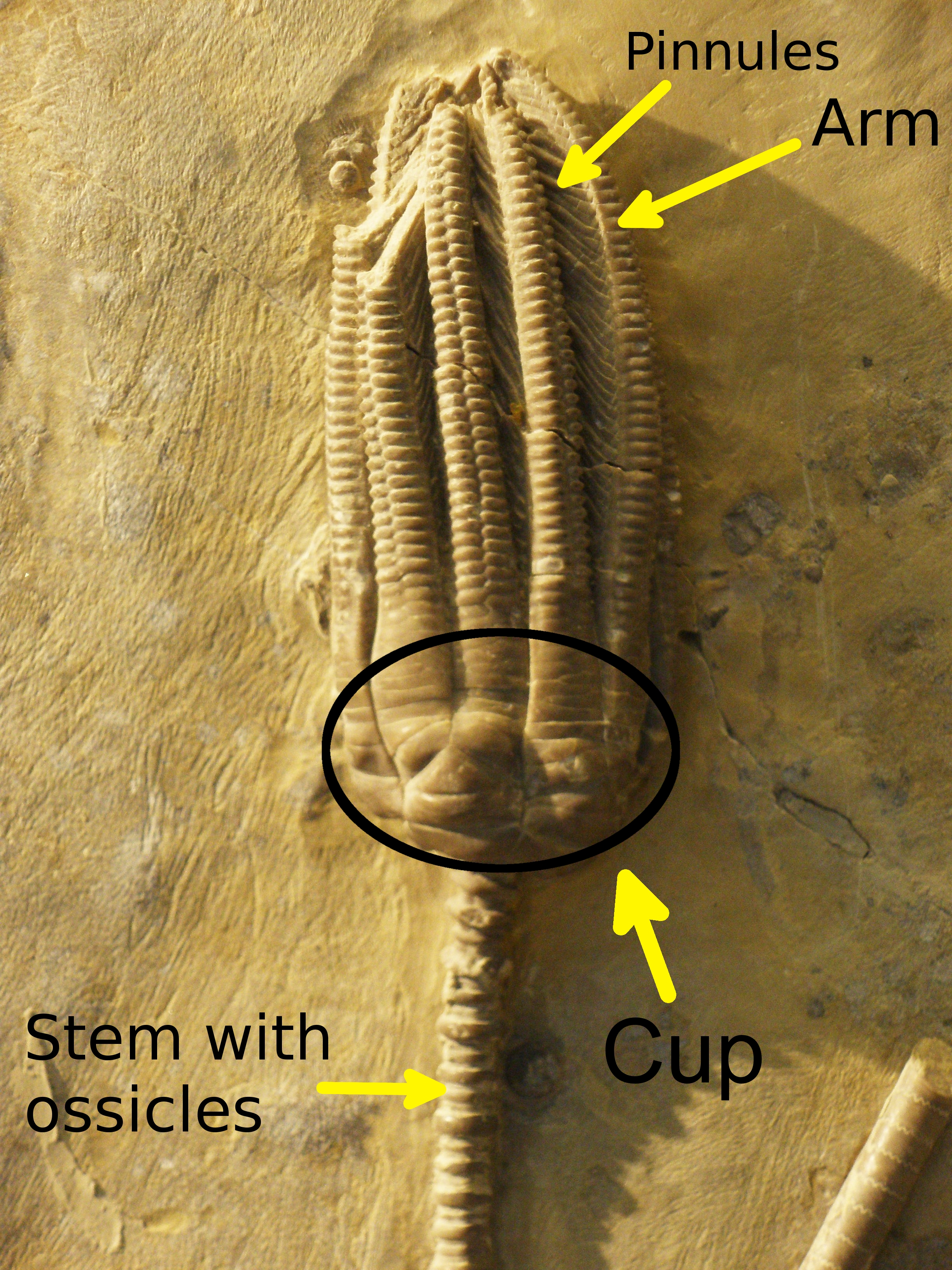 Encrinus liliiformis specimen with markup (in English) to identify parts